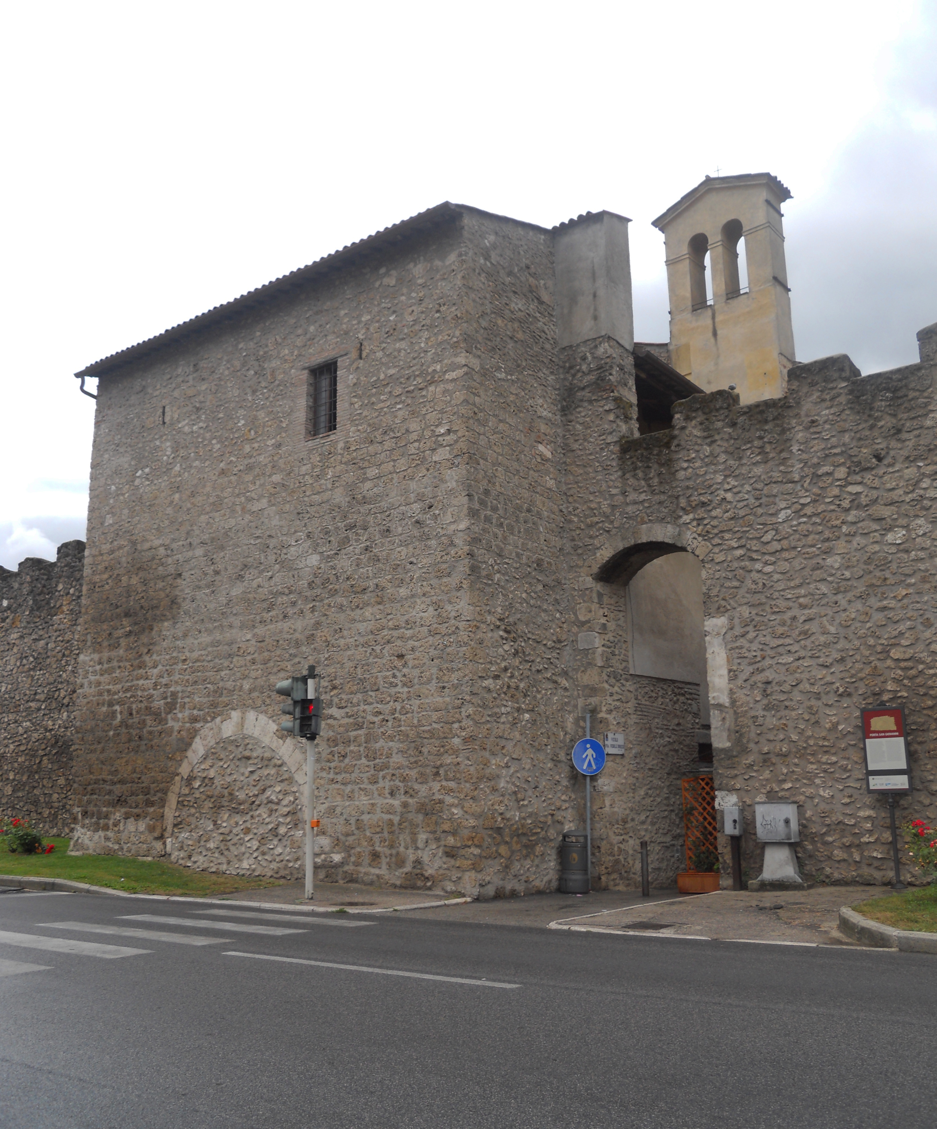 Porta San Giovanni - Rieti, Italy